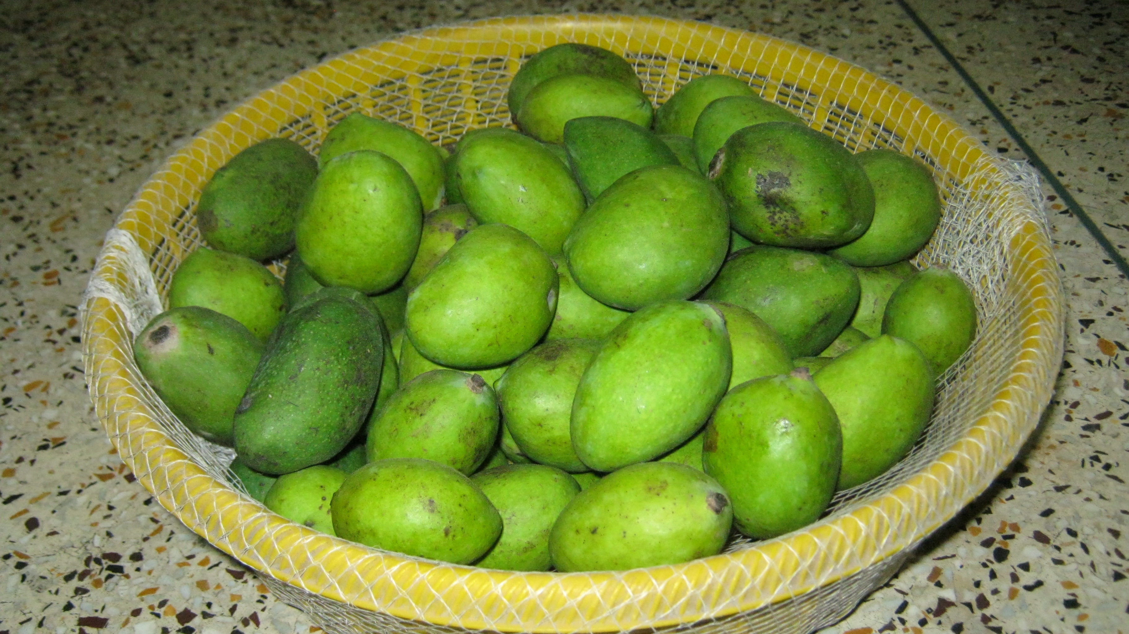 Green Mangos